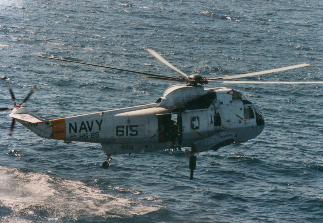 A U.S. Navy Reserve Sikorsky SH-3H Sea King (BuNo 154118) of Helicopter Anti-Submarine Squadron HS-85 "Hellwingers" operating outside of San Francisco Bay (USA). Note the AQS-13 sonar.